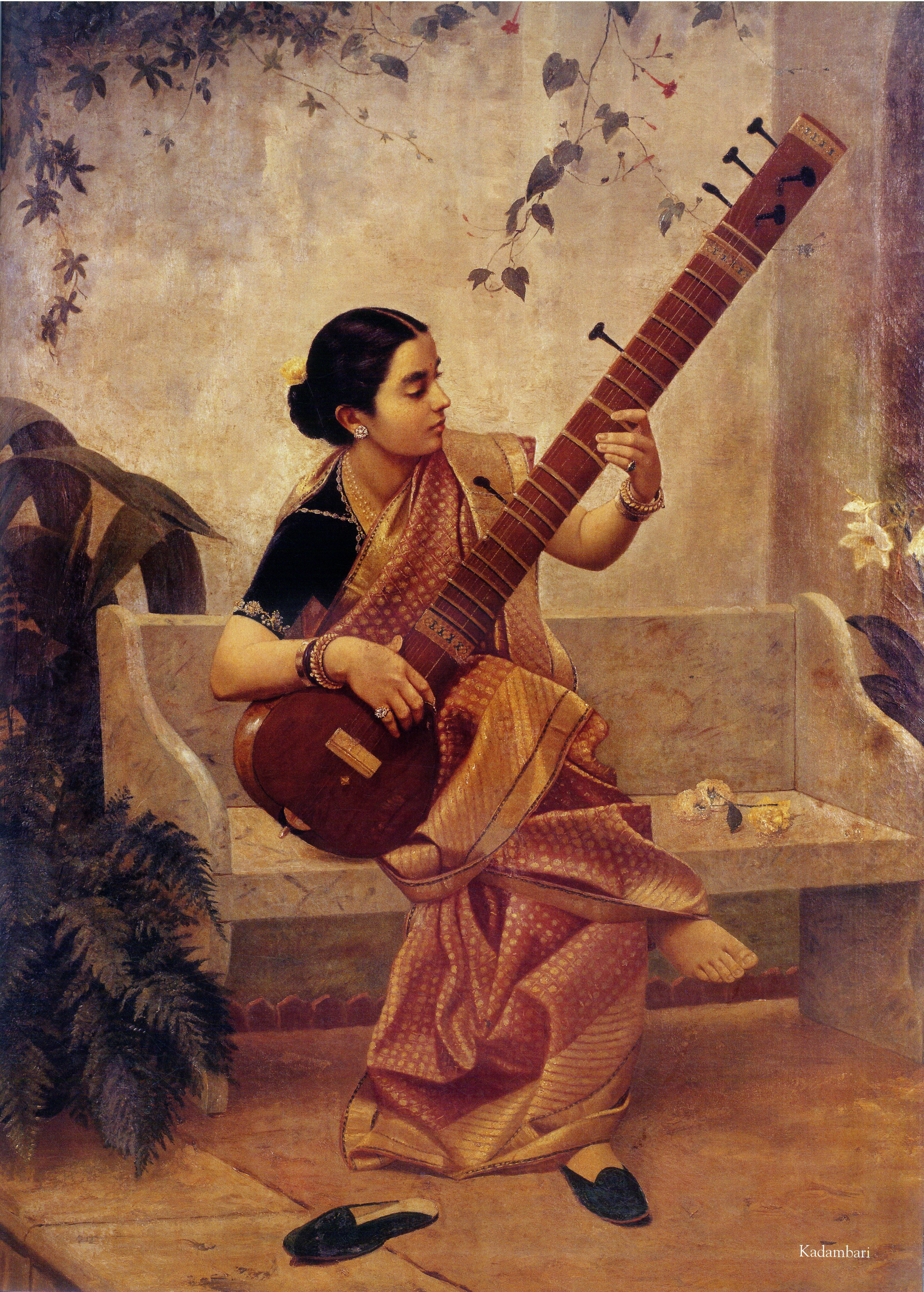 Portrait of Kadambari, a lady playing sitar. Raja Ravi Varma did this painting with his brother C. Raja Raja Varma.